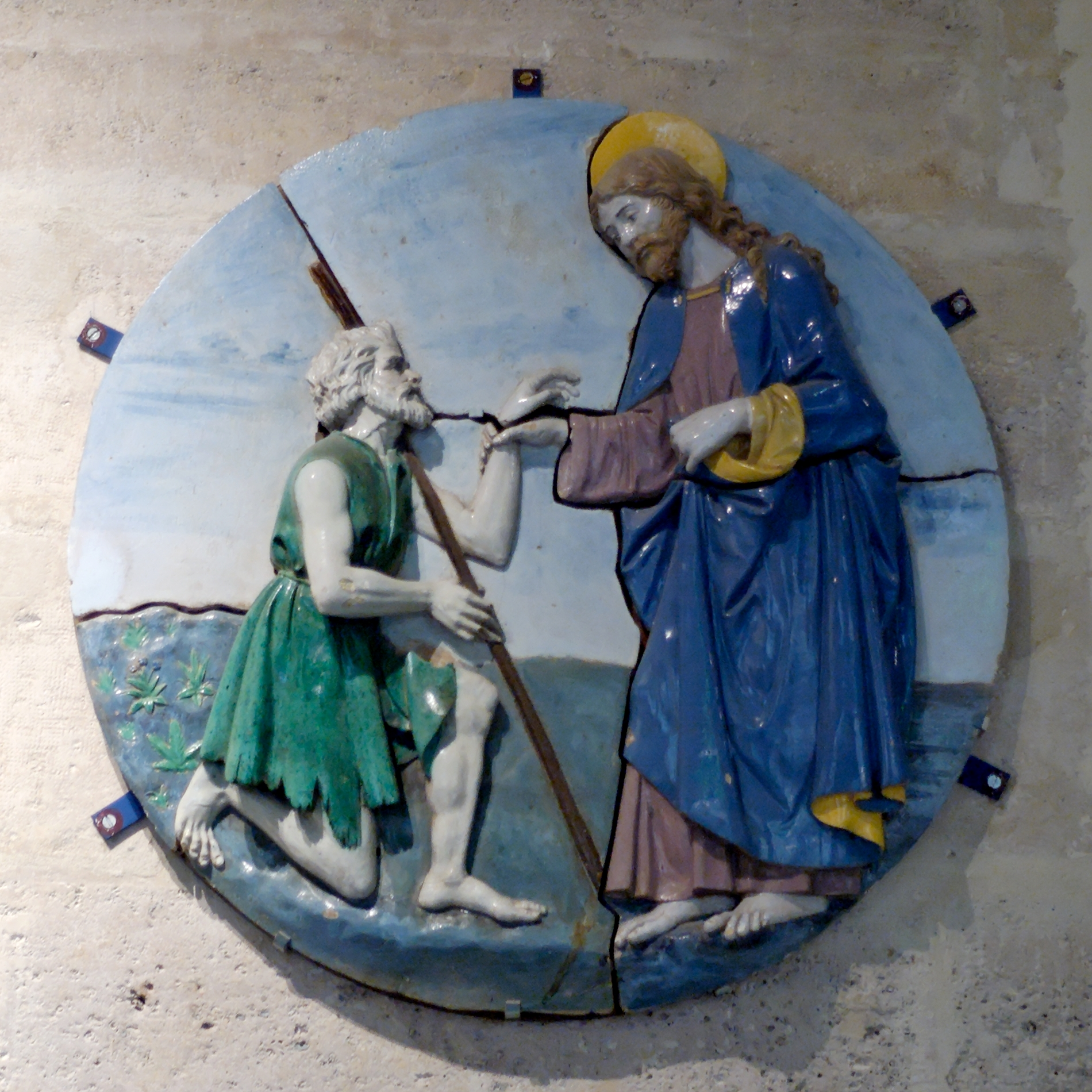 Christ comforting a poor man. Glazed terracotta, ca. 1493.